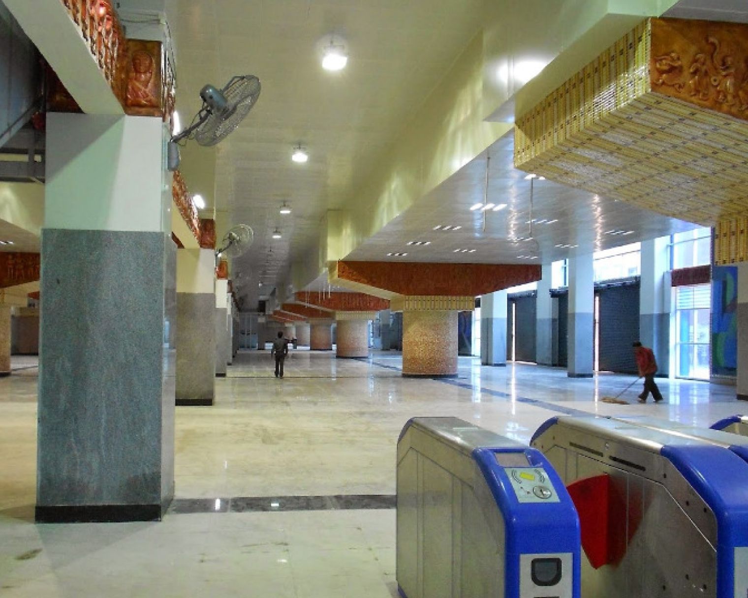 Interior of Noapara metro station.